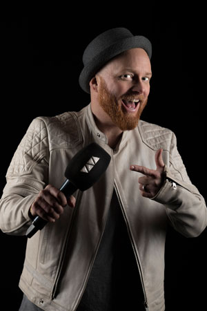 Markus Floth, TV Presenter, Host, Event Producer holding a micro of german pop channel VIVA